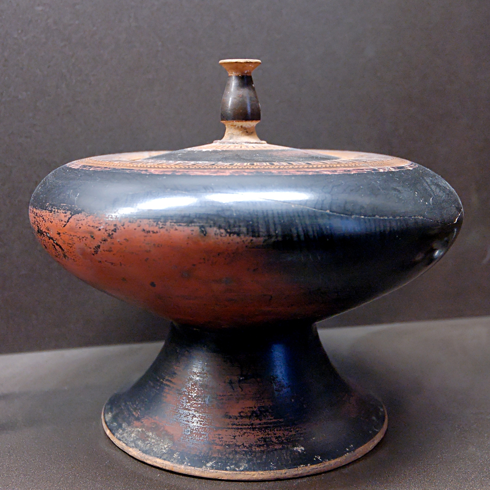 Black-glaze plemochoe, ca. 550–525 BC. From Thespiai, Boeotia.